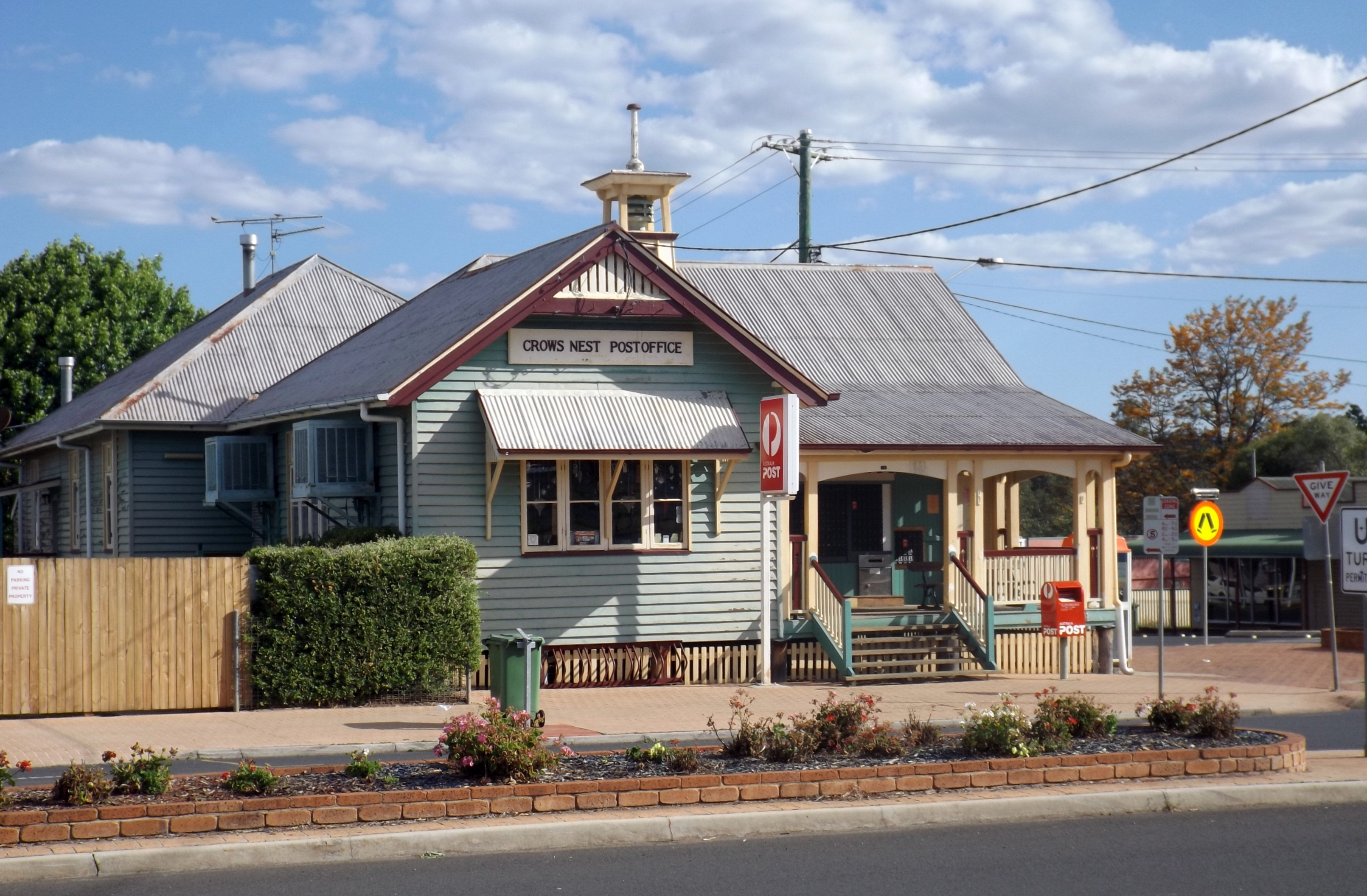 Photo of Crows Nest Post Office at Crows Nest on the Darling Downs in Queensland, Australia.